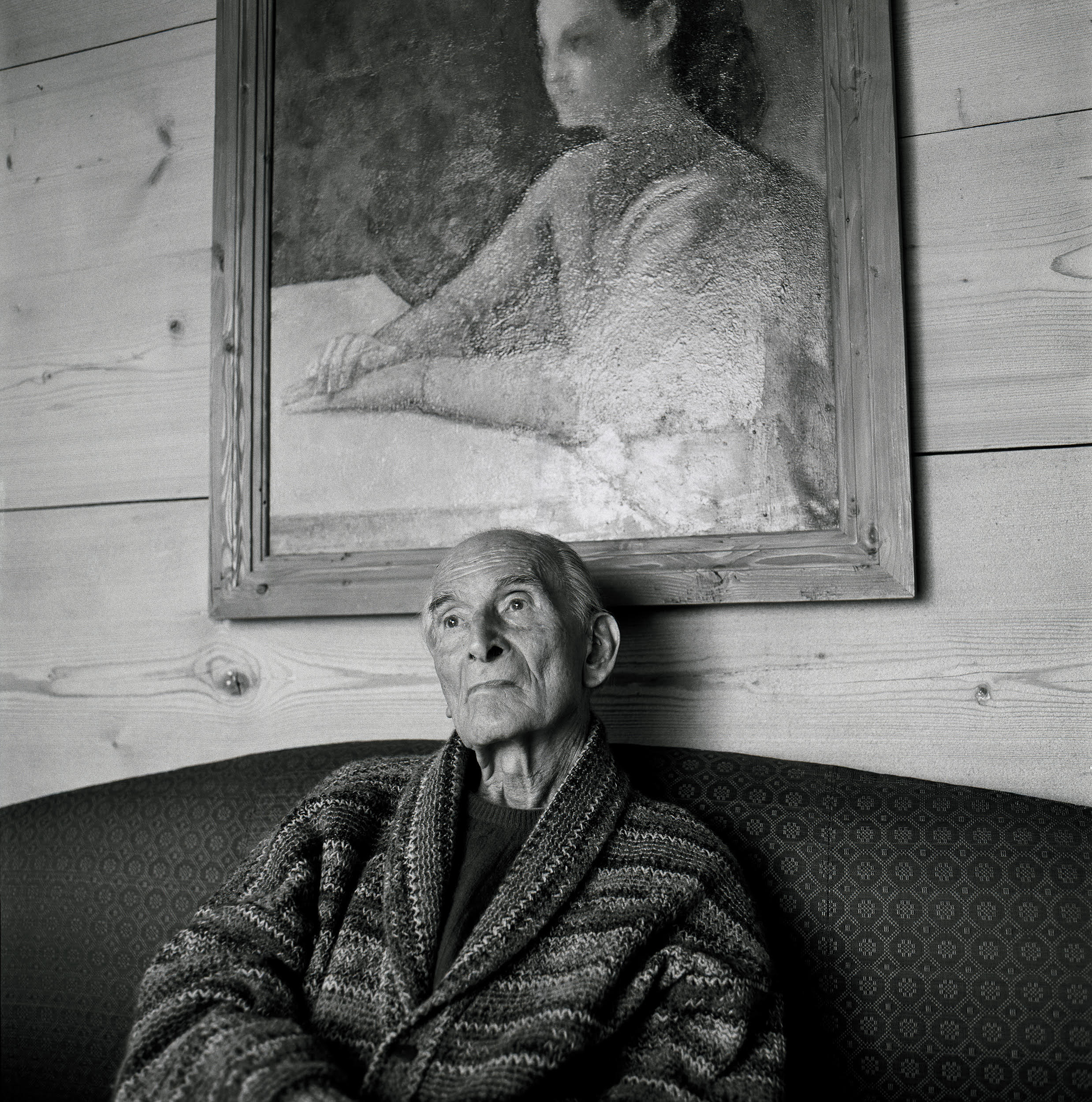 Balthus portrayed by Oliver Mark, Rossinière 2000